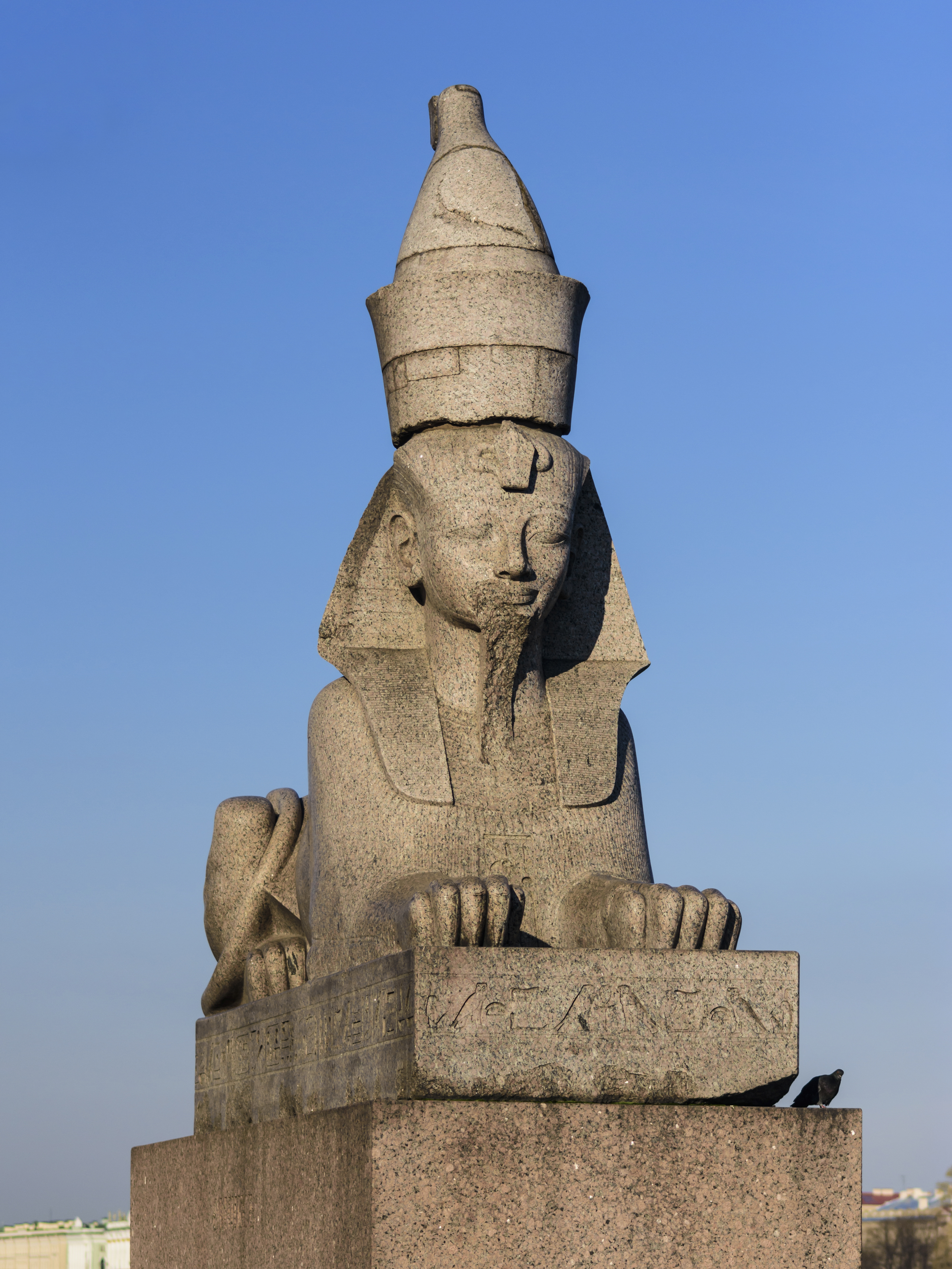 Sphinx at Universitetskaya Embankment in Saint Petersburg